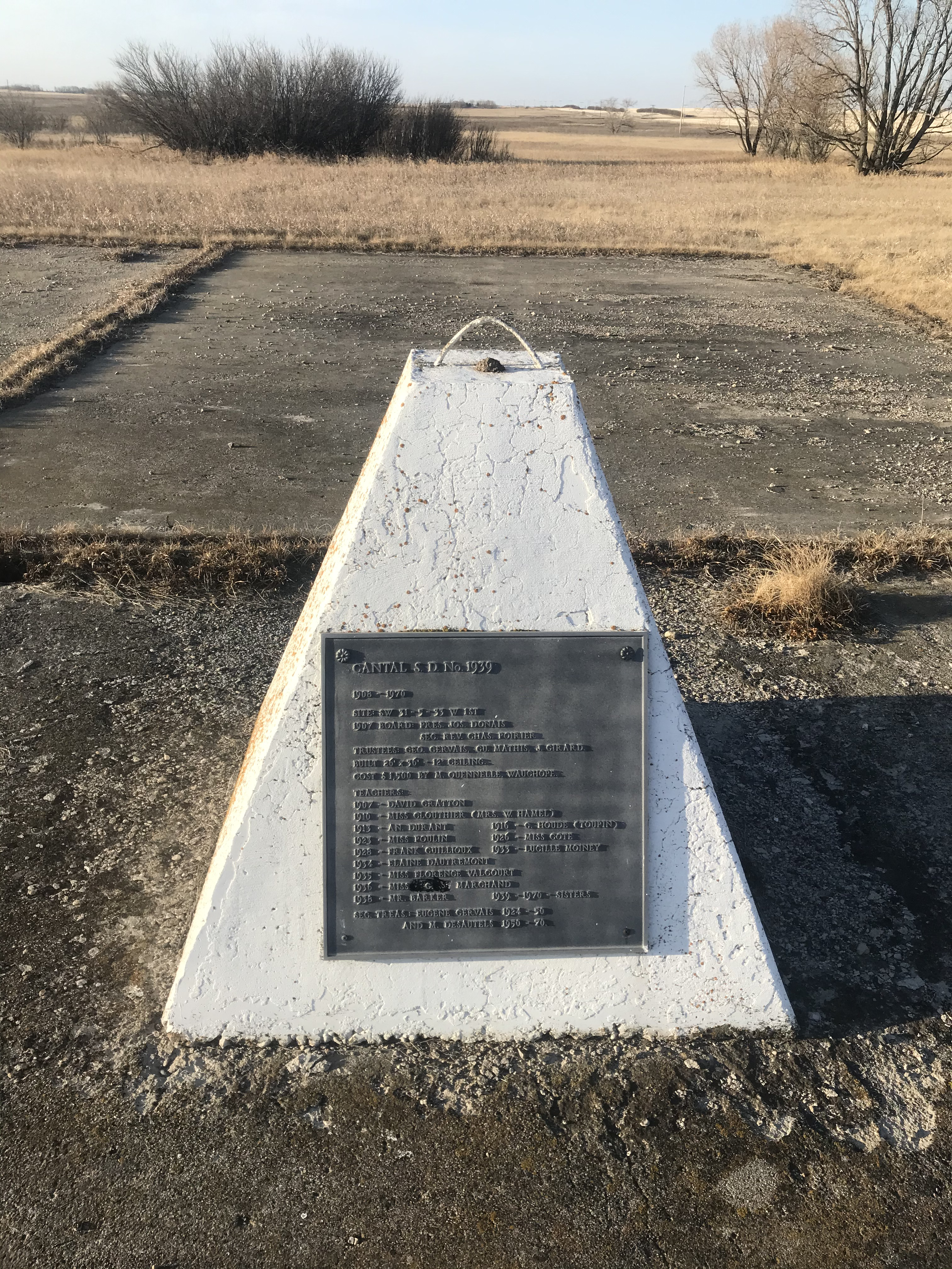 Rural Municipality of Reciprocity No. 32 Cantal Saskatchewan school cairn